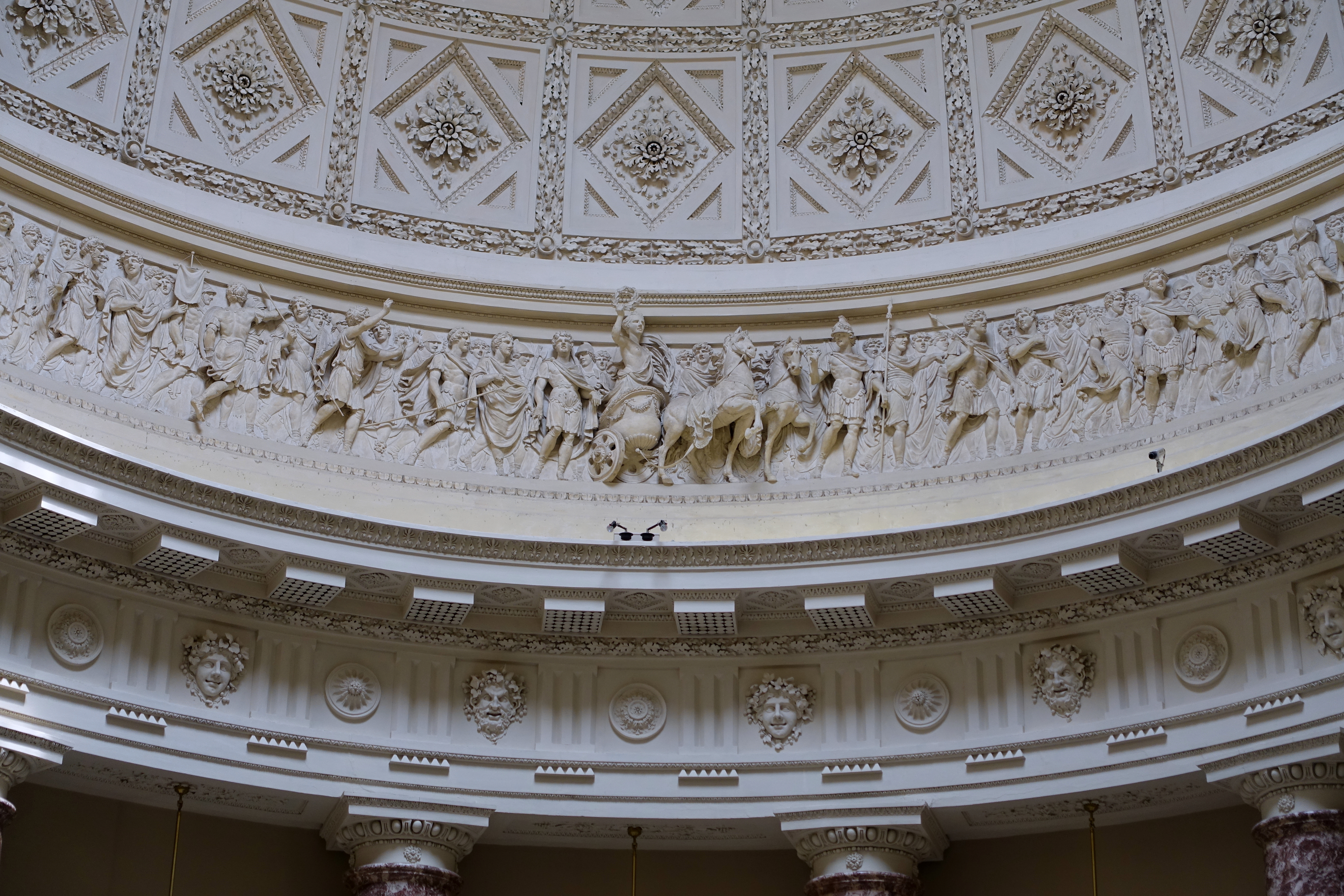 Saloon - Stowe House - Buckinghamshire, England.